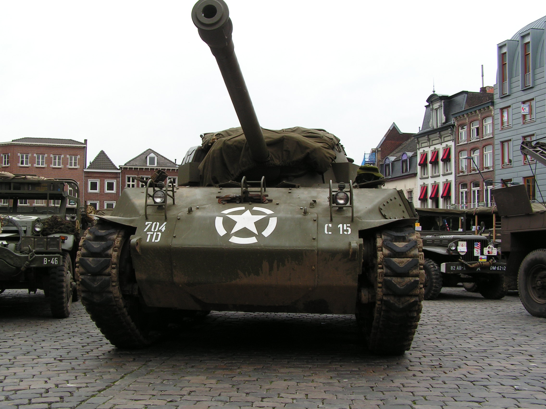 Close-up of an M18 Hellcat at the 2007 Santa Fé Event in Roermond, the Netherlands.